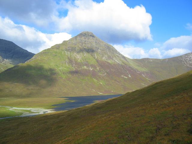 Belig from Beinn na Cro Looking across Strath Mor from about half-way up Beinn na Cro to the distinctively shaped Belig.